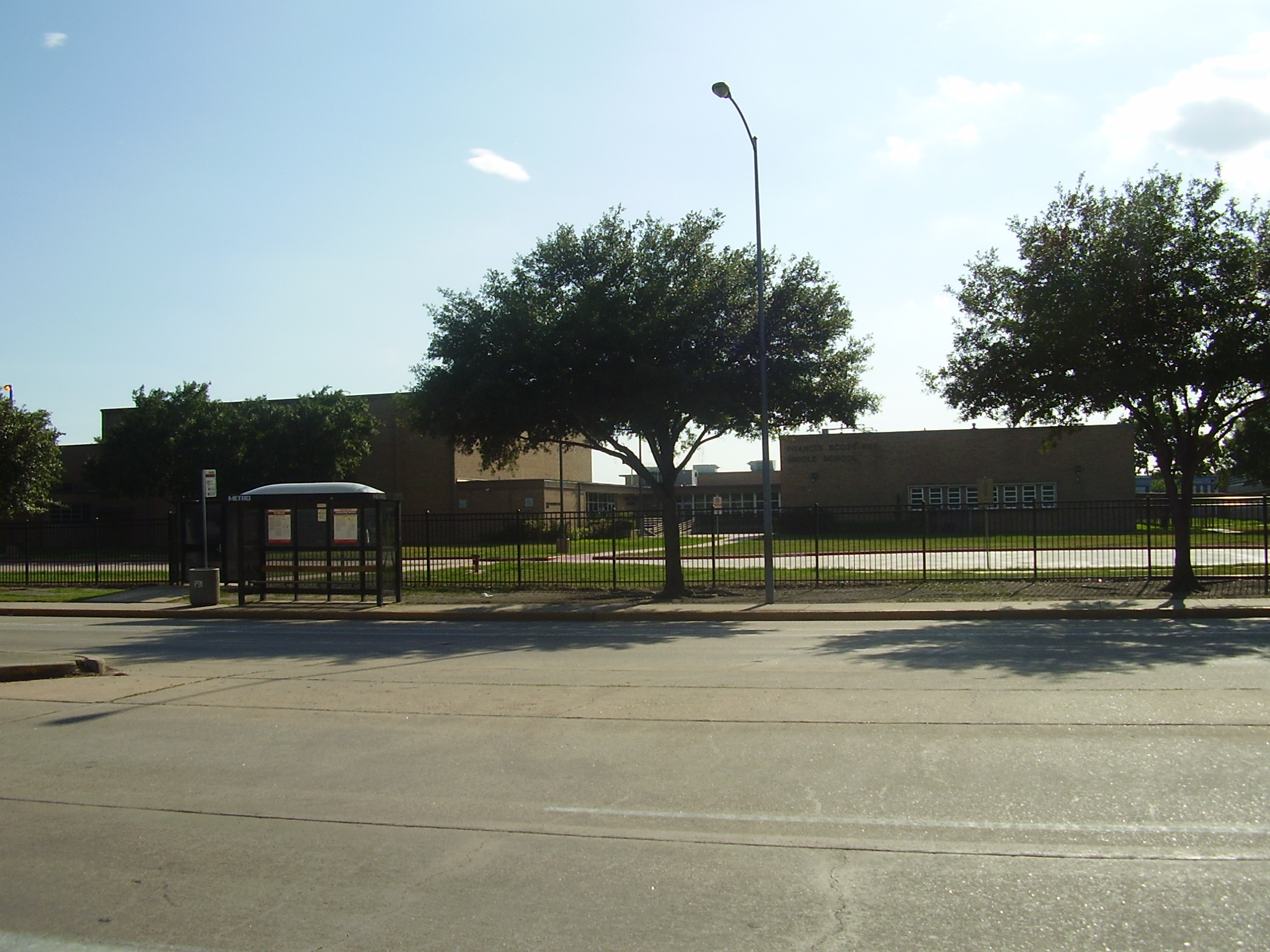 Francis Scott Key Middle School (previously Kashmere High School)